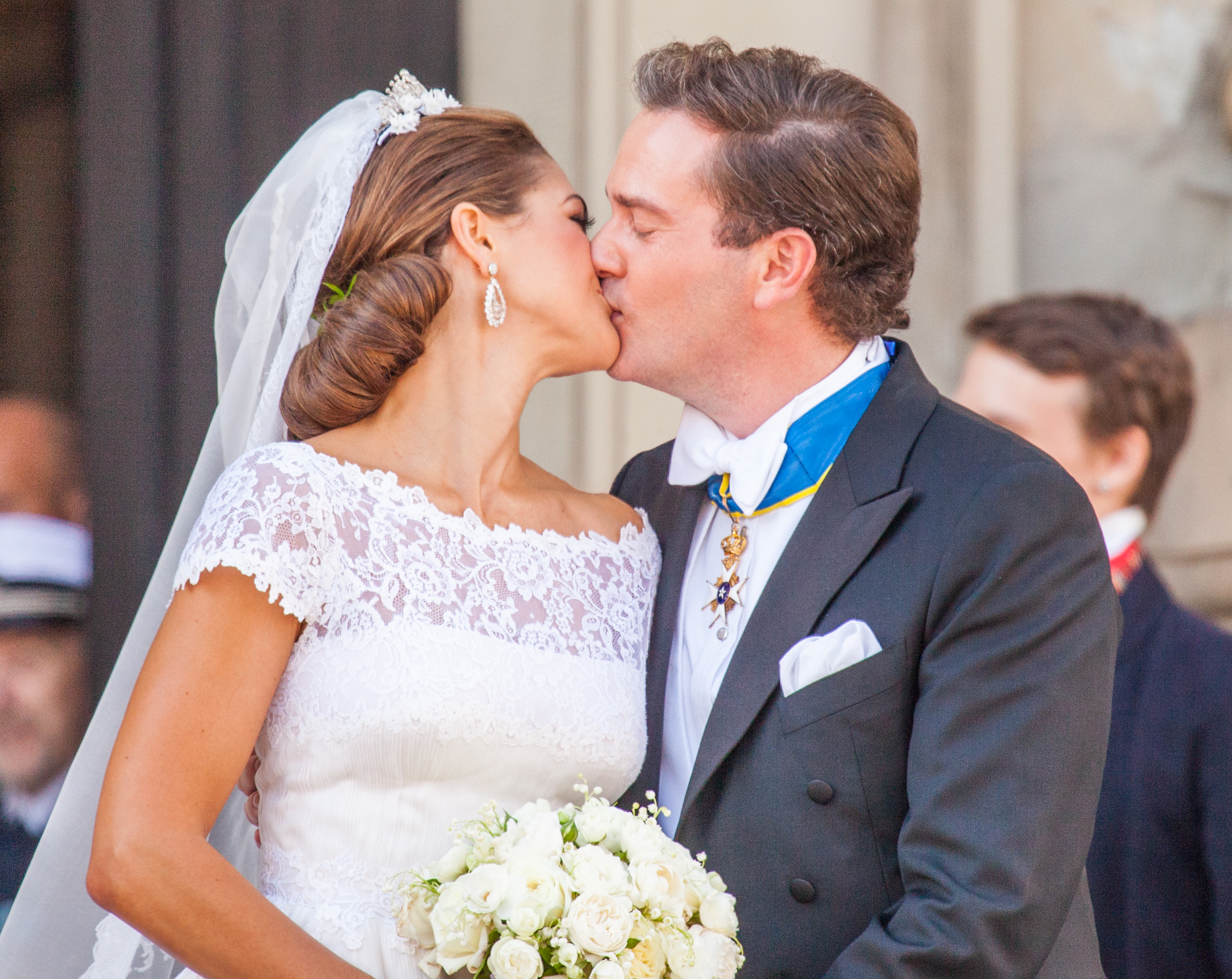 Princess Madeleine of Sweden and Christopher O´Neill wedding June 2013